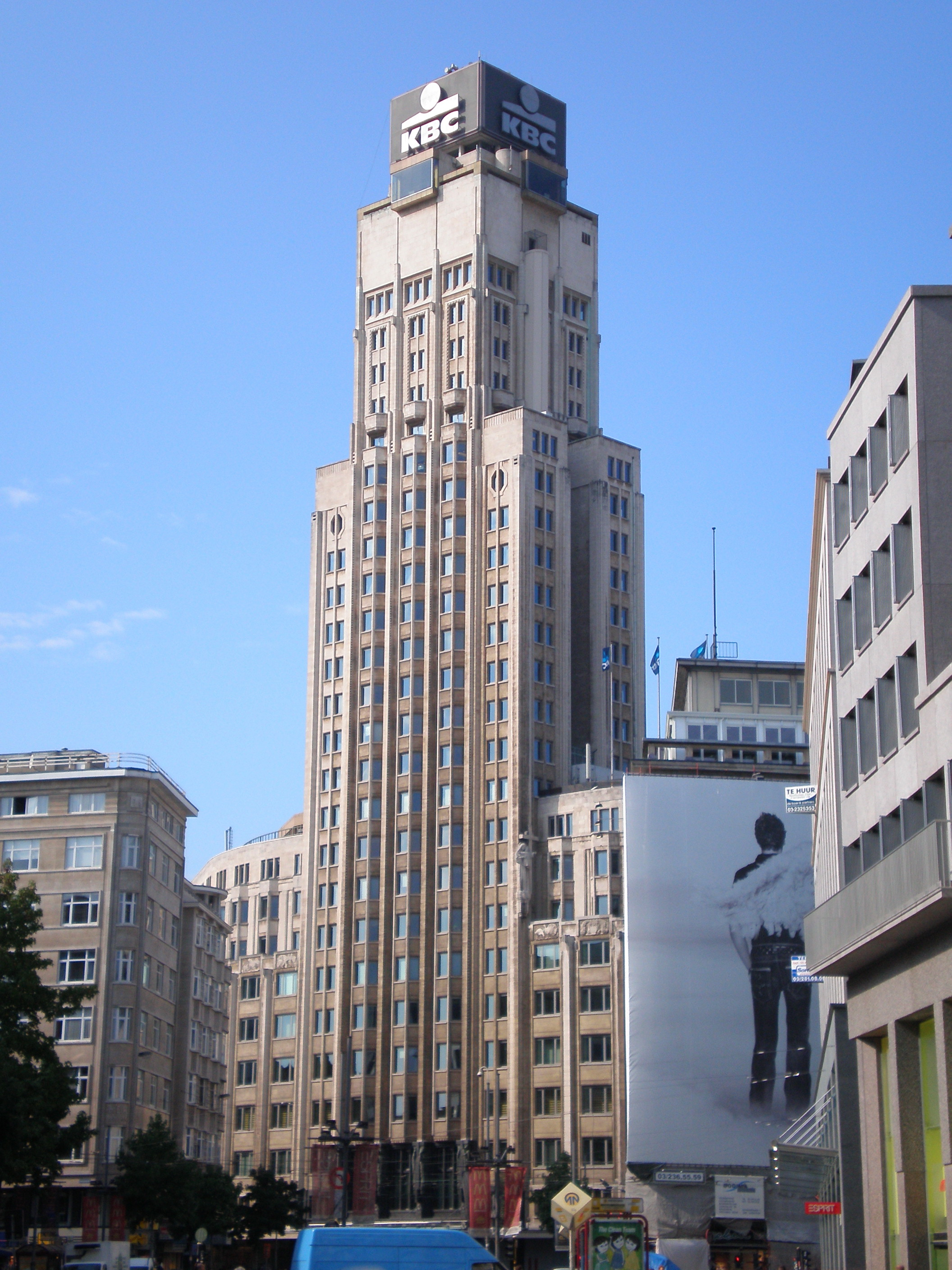 KBC Bank building in Antwerp (Farmers Tower)